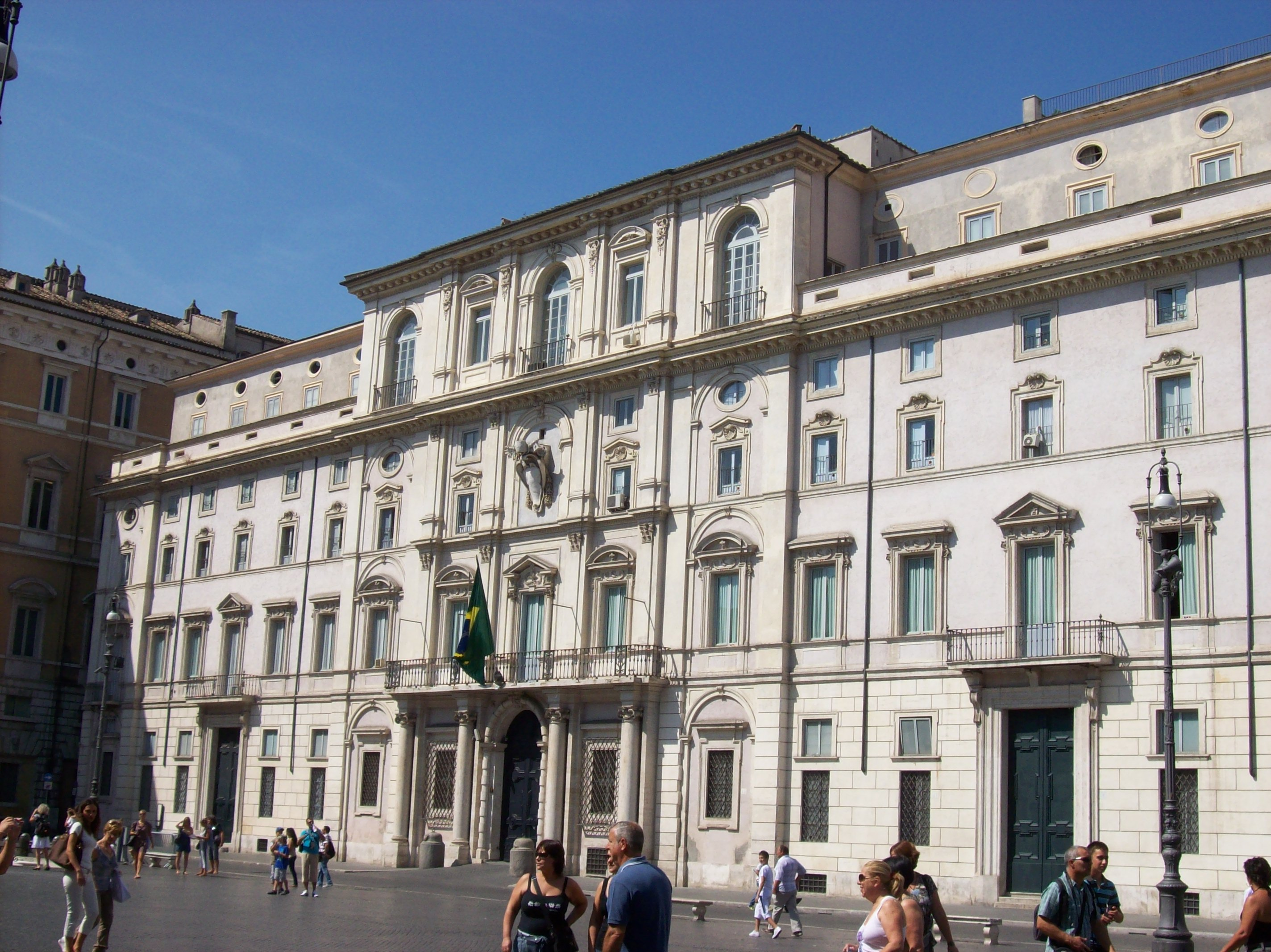 Palazzo Pamphilj in Rome, seat of the Brazilian Embassy in Italy